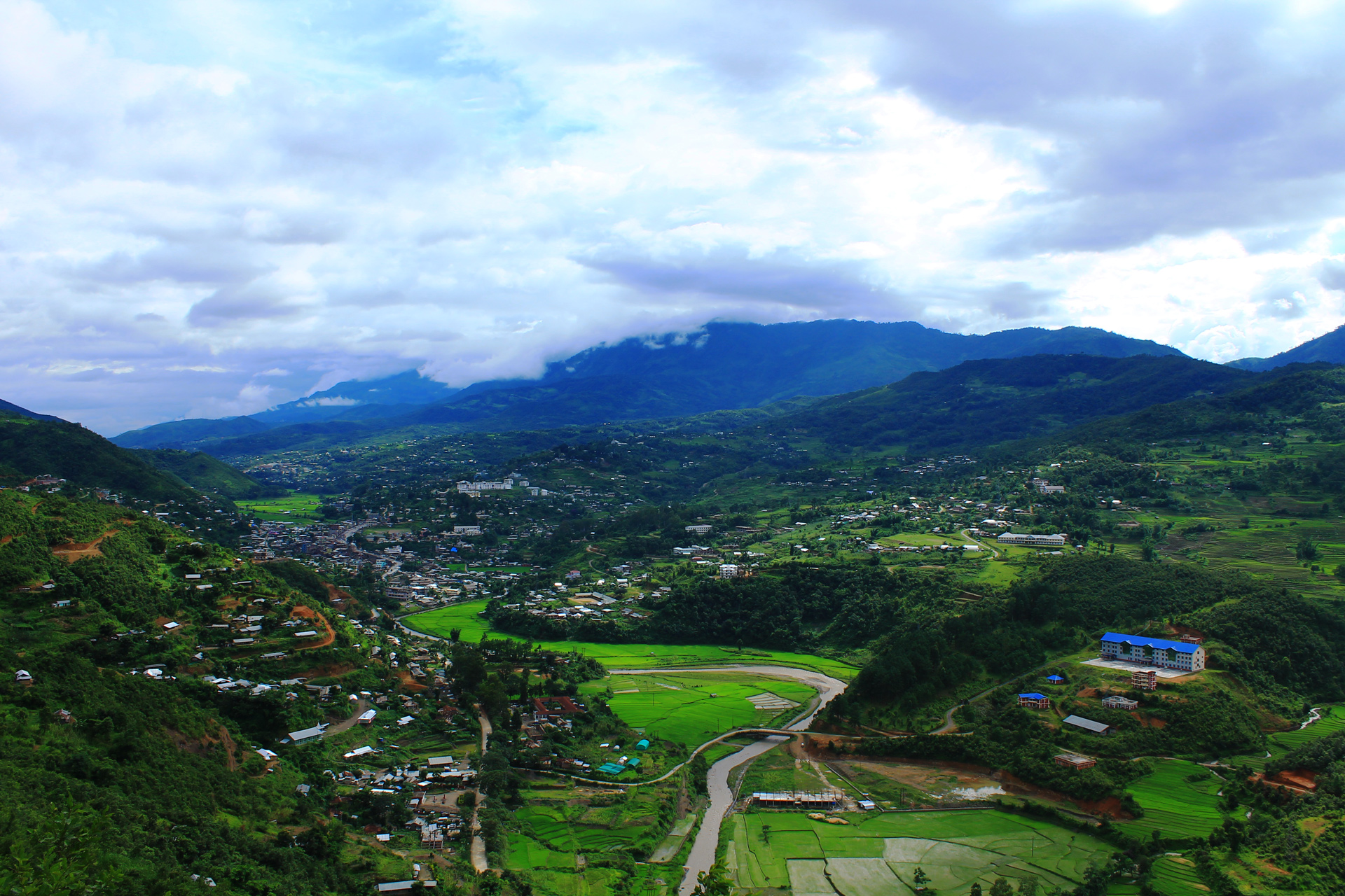 A view of Senapati from the top